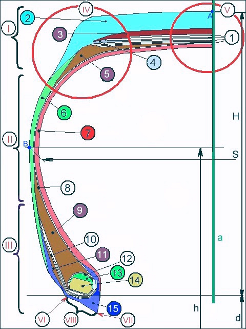 Structure of a tyre 1 - belts (tread plies), 2 - tread cap, 3 - tread base (tread cushion), 4 - tread ply wedge (decoupling rubber), 5 - belt cushion (tread ply insert), 6 - sidewall rubber, 7 - innerliner, 8 - carcass, 9 - bead filler, 10 - steelcord chafer (bead reinforce), 11 - sidewall filler, 12 - bead wrap, 13 - bead core filler, 14 - bead bundle, 15 - abrasion gum strip (rubber chafer). I - tread area, II - sidewall area, III - bead area, IV - shoulder area, V - tread center area, VI - bead heel, VII - bead toe, VIII - bead base. A - centerline, B - the widest point of the section, H - section height, S - section width, h - diameter of the widest point, d - bead seat diameter